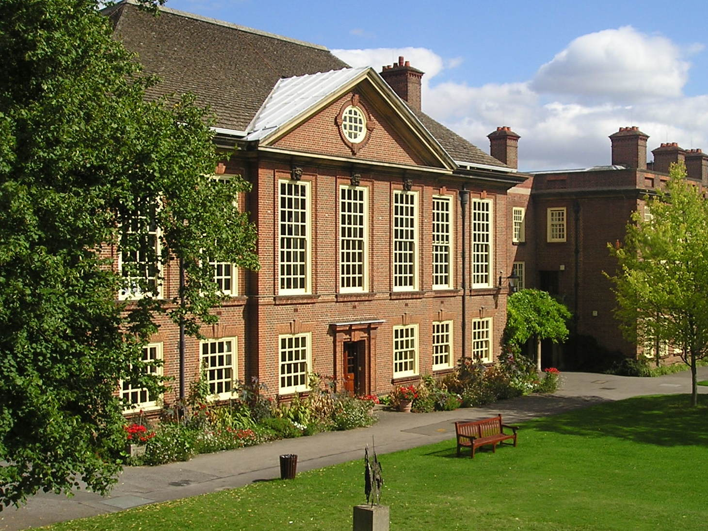 The Hall (left) and Maitland Building (right) of Somerville College, Oxford